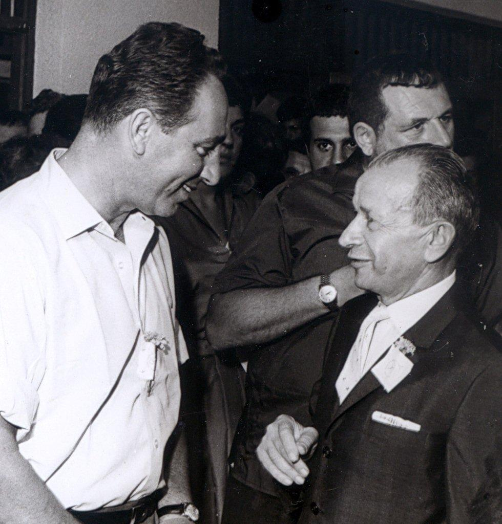 Mordechai Navon and Shimon Peres